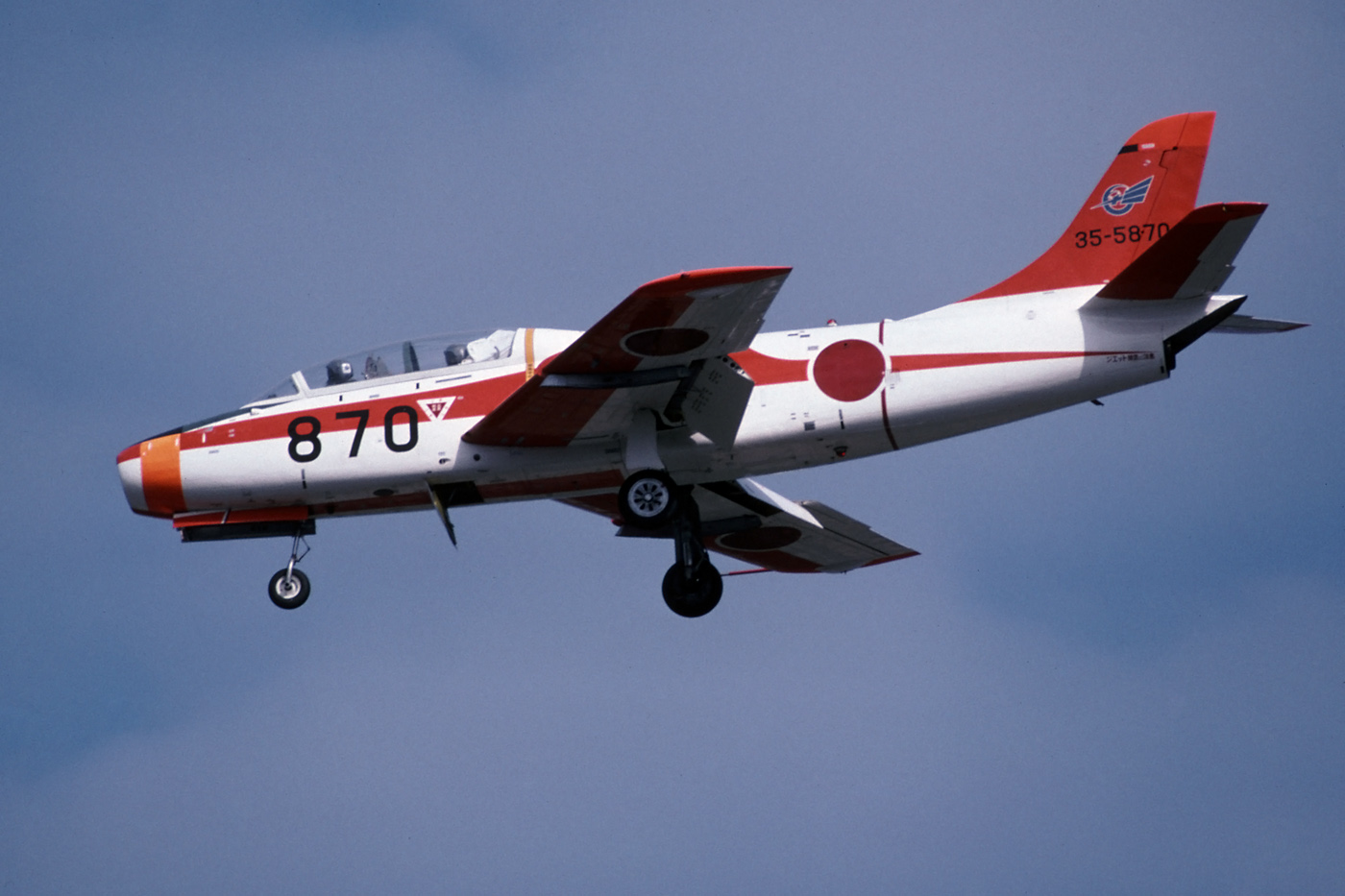 Ashiya, November 1994. A Fuji T-1B of 1 or 2 Hikotai at its home base Ashiya. This classic trainer was replaced by the T-4 in 1999. The last T-1s to retire where those at Nagoya-Komaki in 2006.